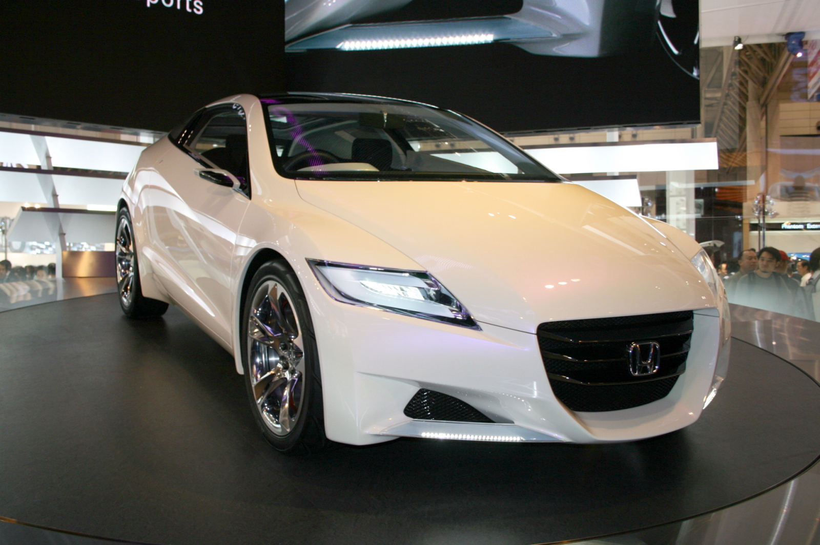 Honda CR-Z in Tokyo motor show